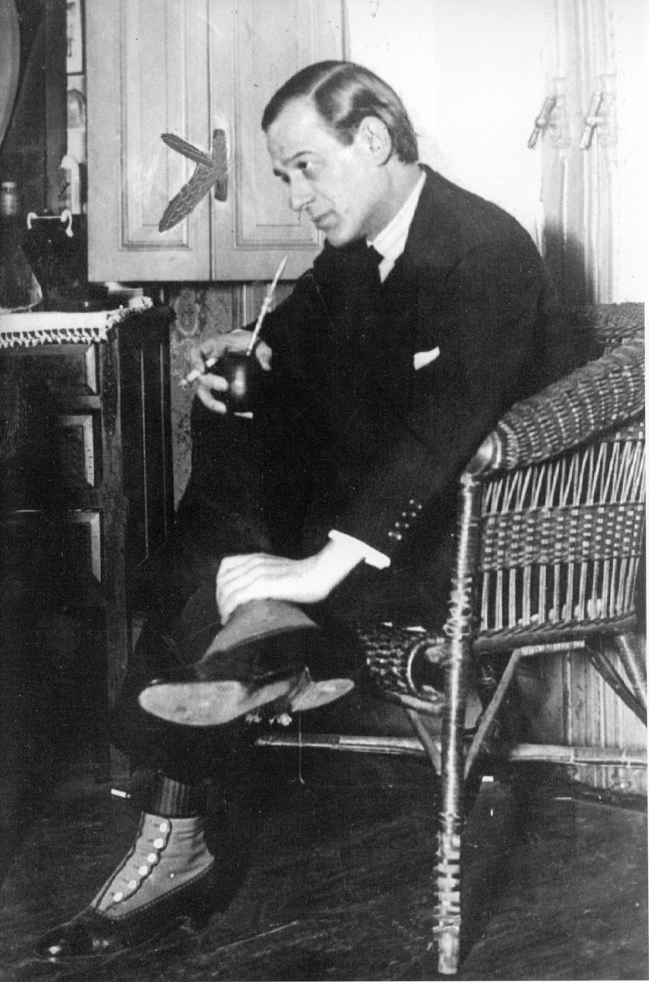 Tango-poet Pascual Contursi, writer of Mi noche triste.